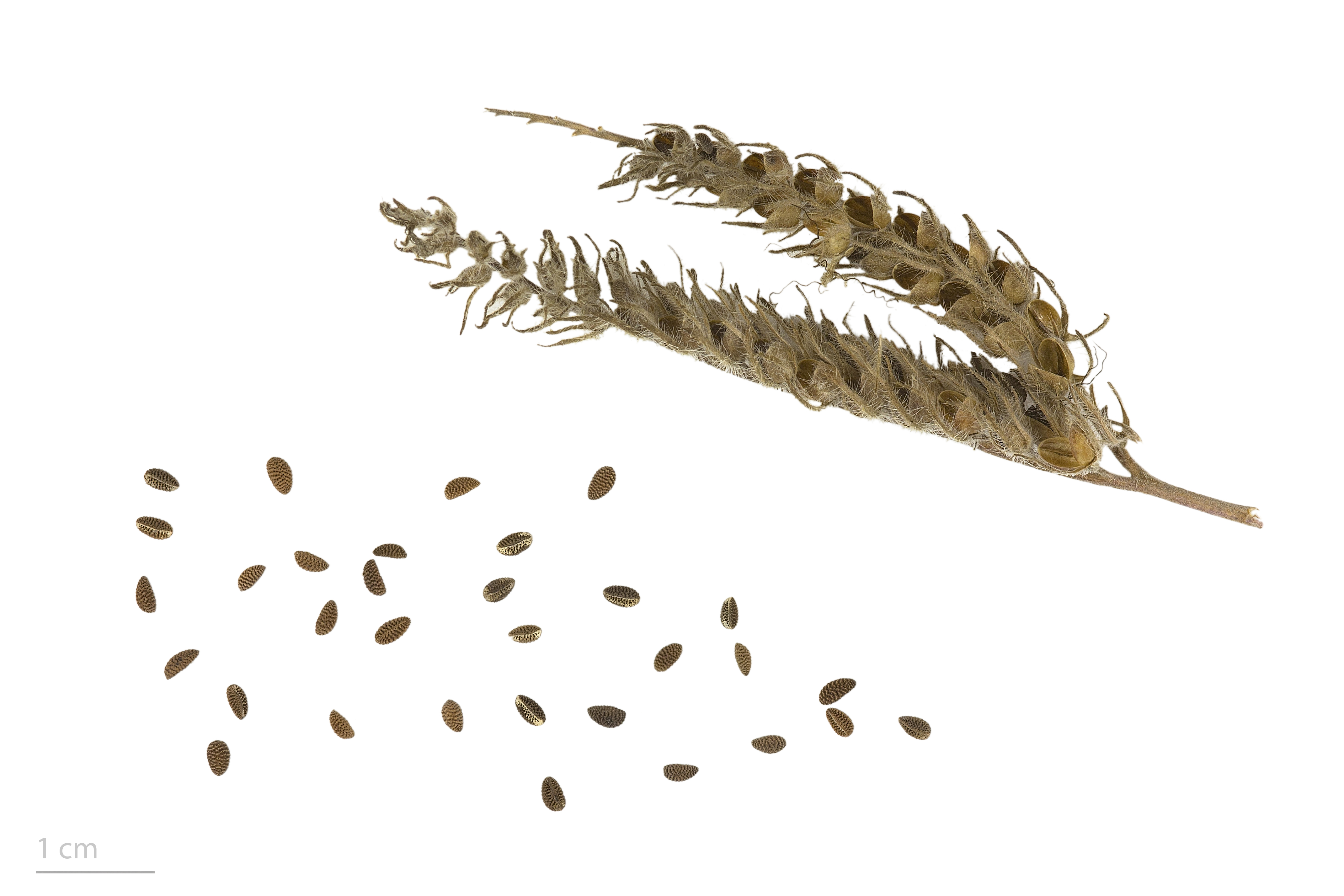 Phacelia tanacetifolia, lacy phacelia, seeds